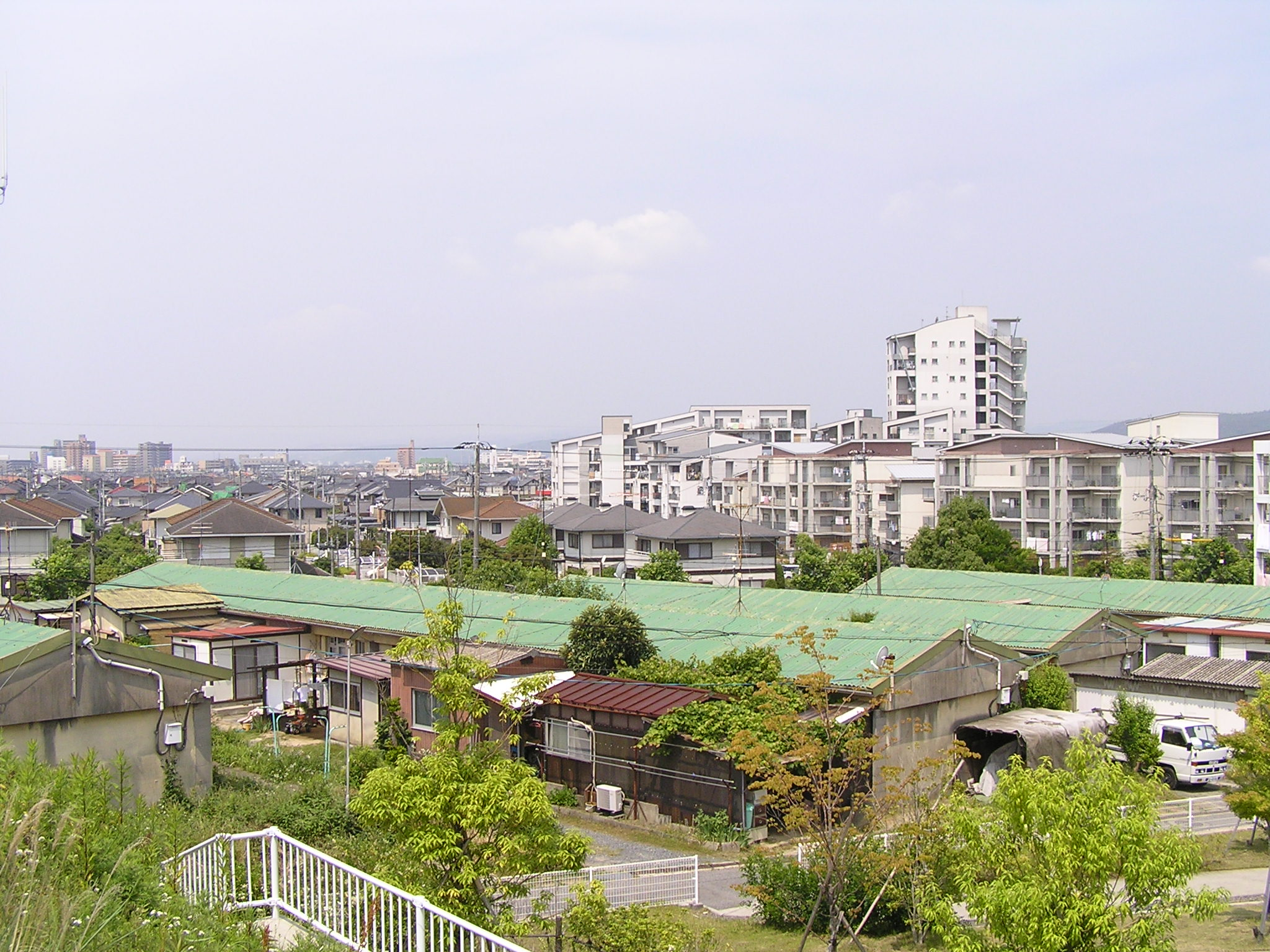 Nakasho Apartment of a housing complex